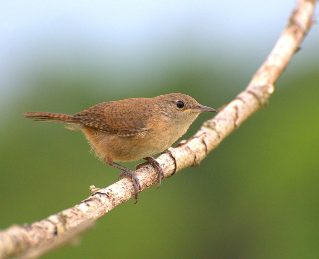 A cambaxirra or corruíra (Troglodytes musculus), a brazilian bird also referred to as garrincha in the North-Est brazilian side.